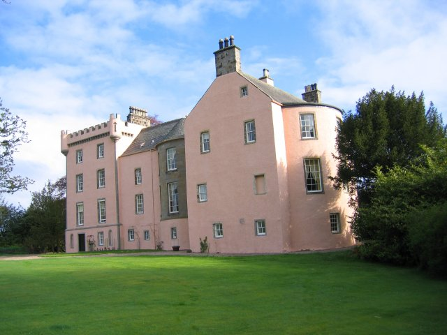 The Castle of Park, Cornhill, Aberdeenshire, Scotland.